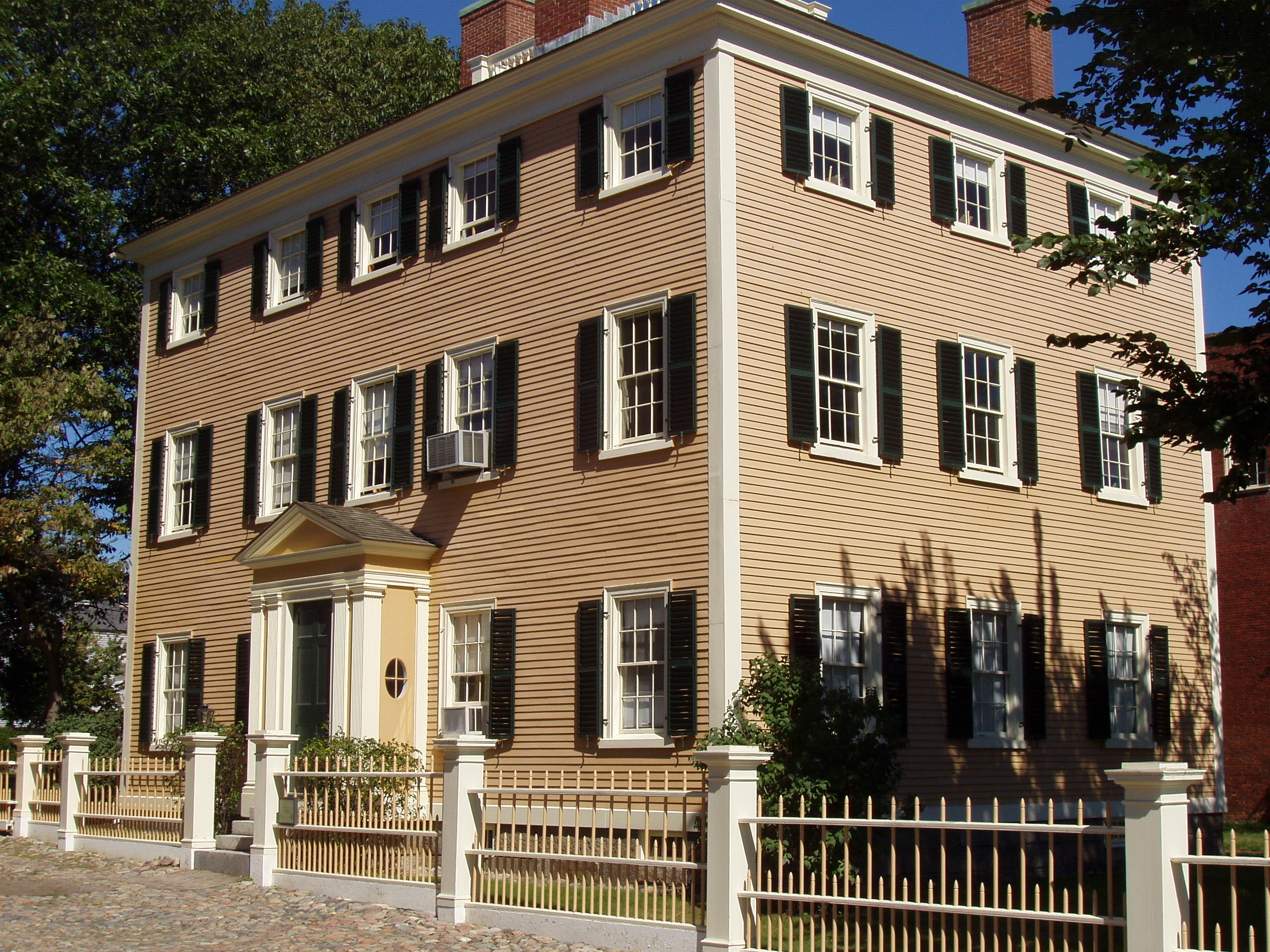 Benjamin Hawkes House - Salem, Massachusetts. Photograph taken by me, September 2005.